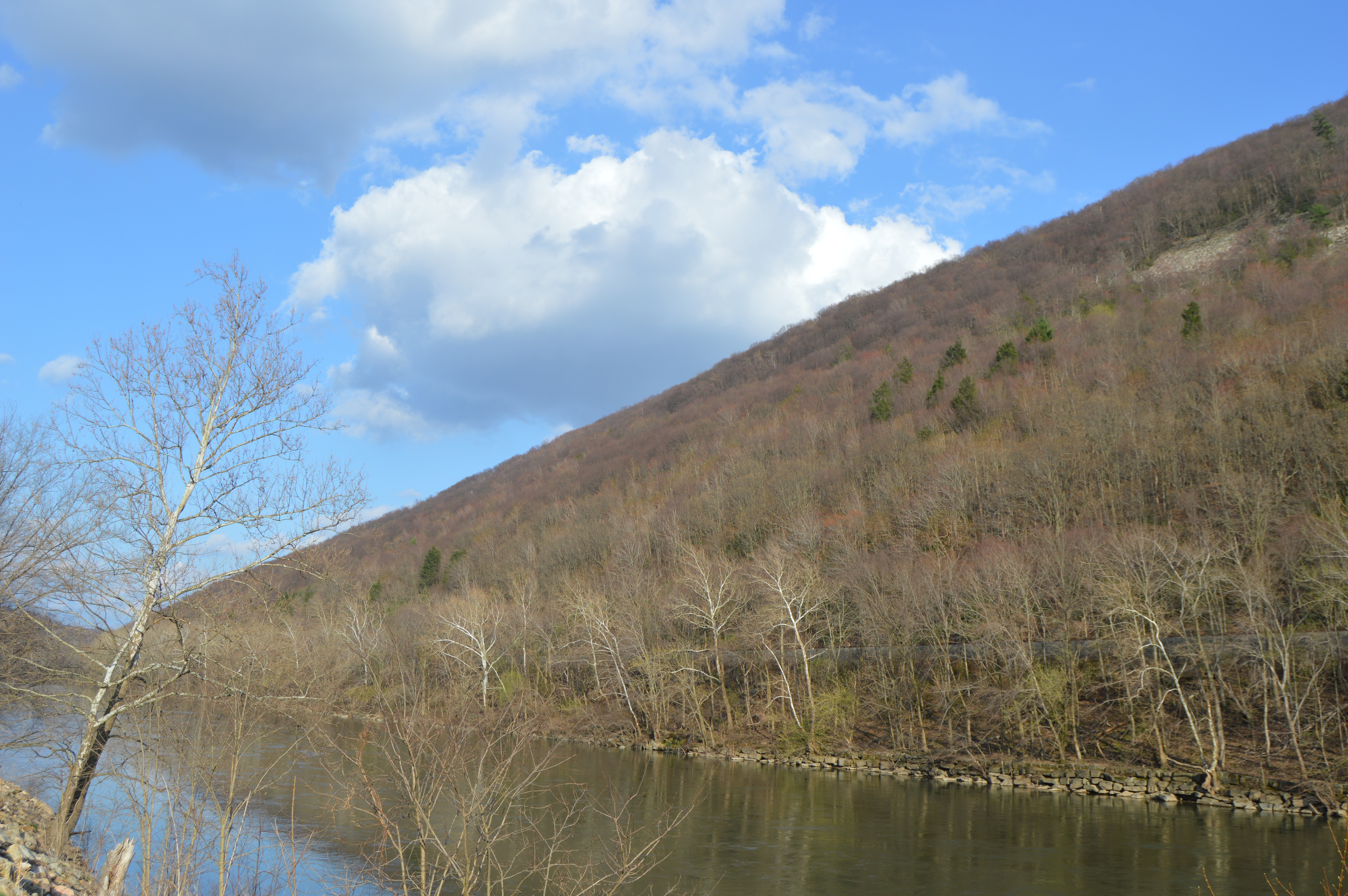 Northern side of Blue Mountain at the Lewistown Narrows, seen from the Lewistown Narrows boat ramp along U.S. Route 22 southeast of Lewistown, Pennsylvania, United States. The boat ramp is in Fermanagh Township, but the mountain is in Milford Township.